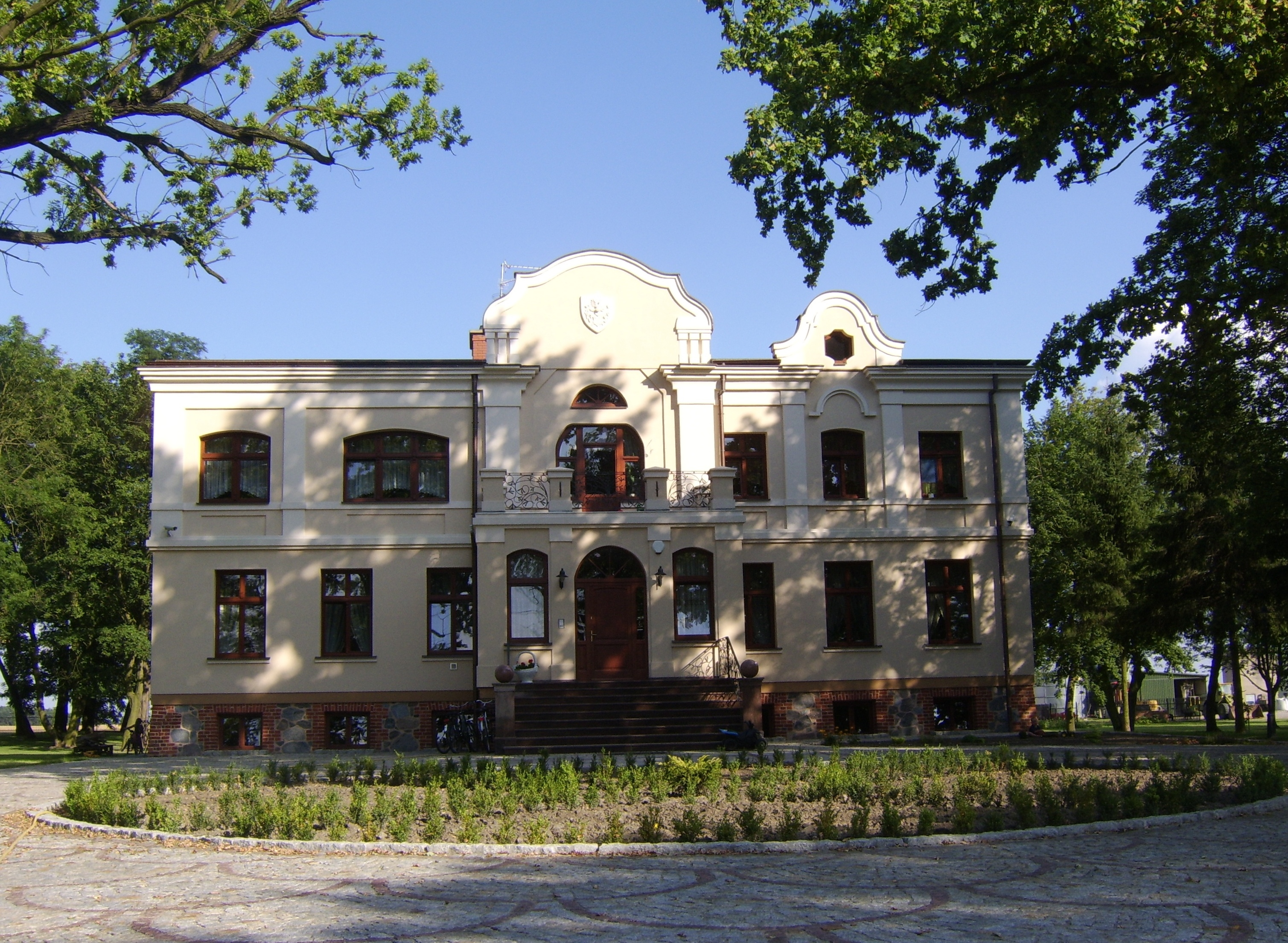 Palace in the village Sławkowo